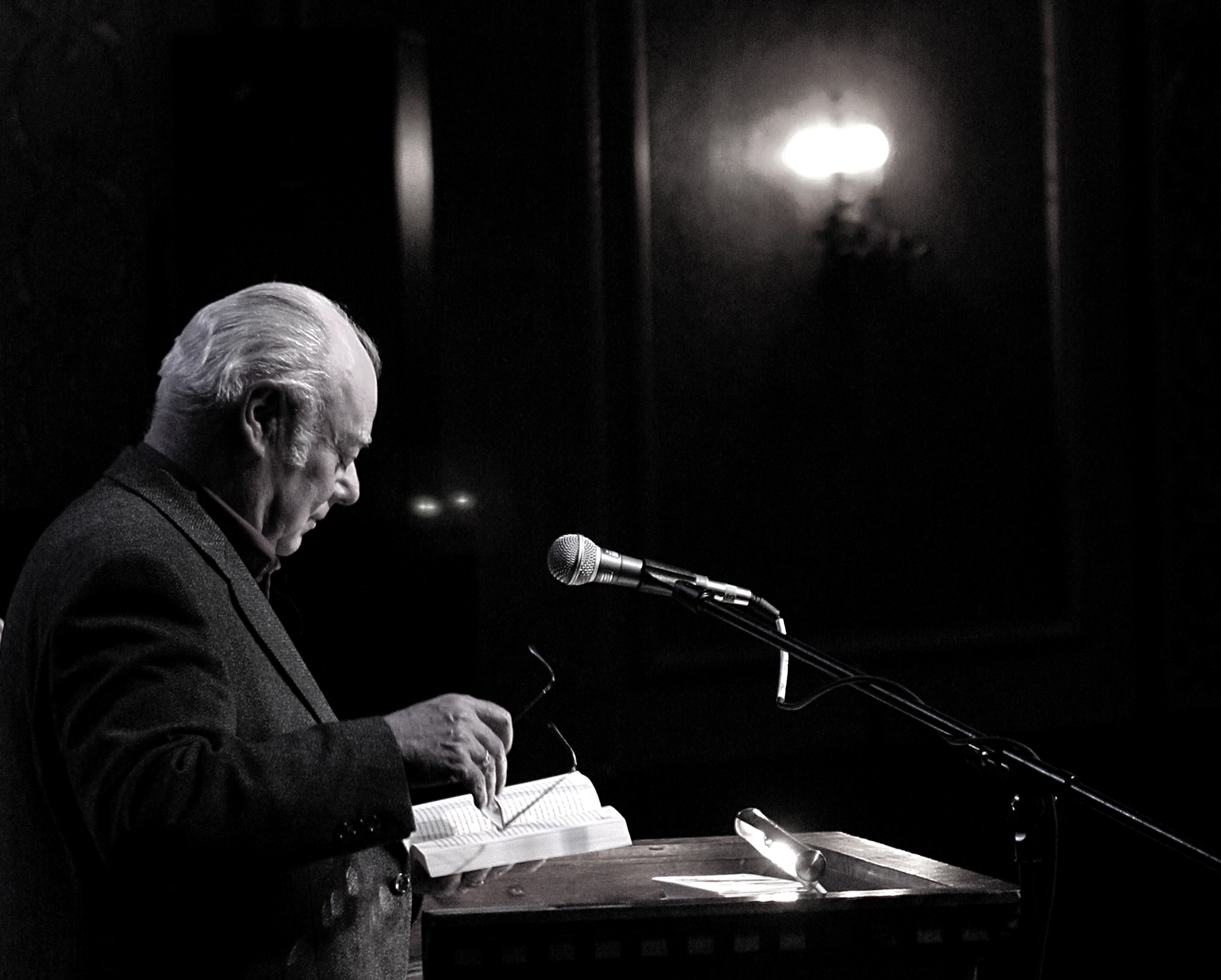 Canadian writer Alistair MacLeod reads from his work